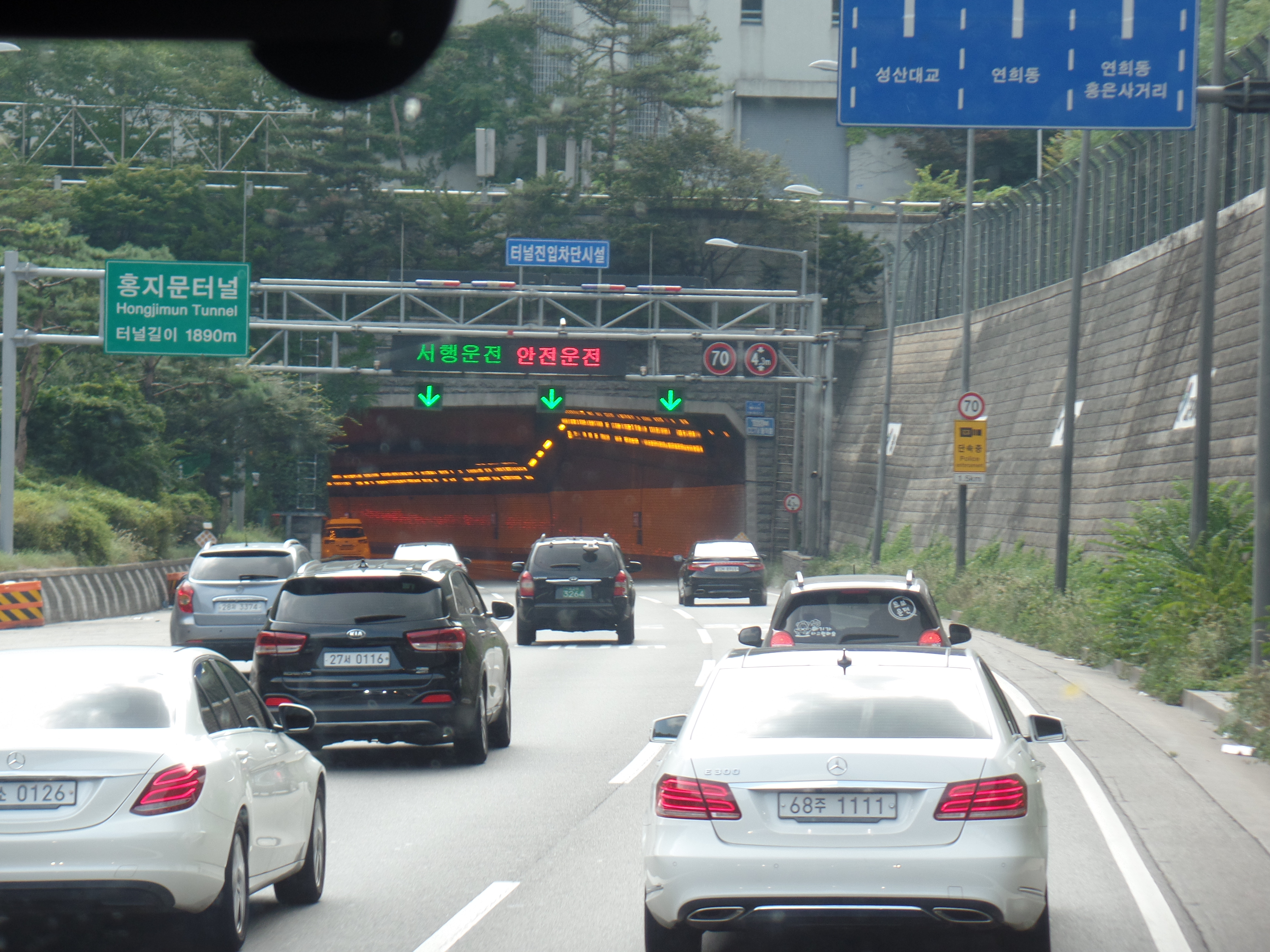 Naebu Beltway Hongjimun Tunnel(Seongsan Interchange Direction)